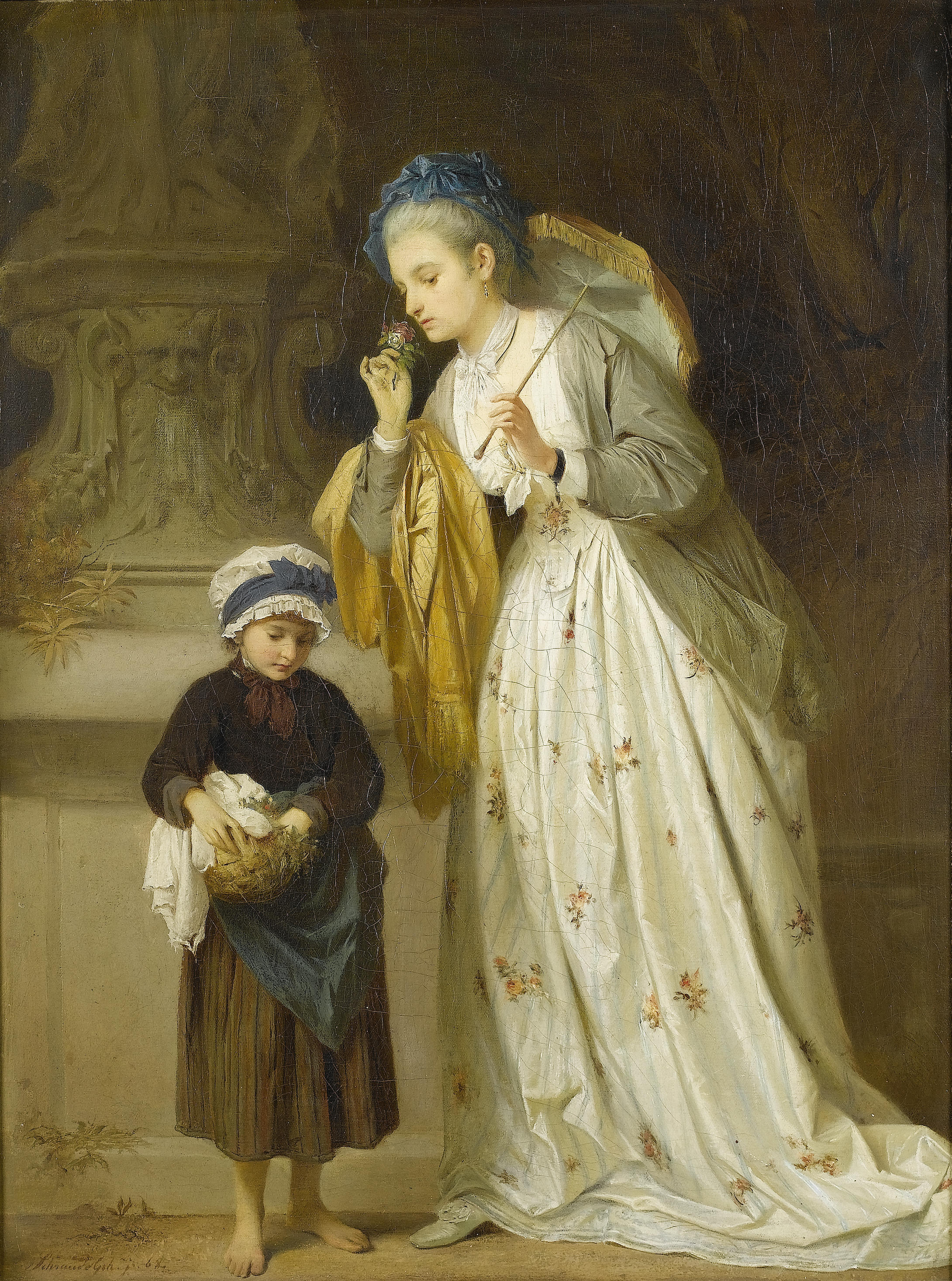 The little flower seller; signed and dated 'C Schraudolph j.1868' (lower left); oil on canvas; 62 x 46 cm